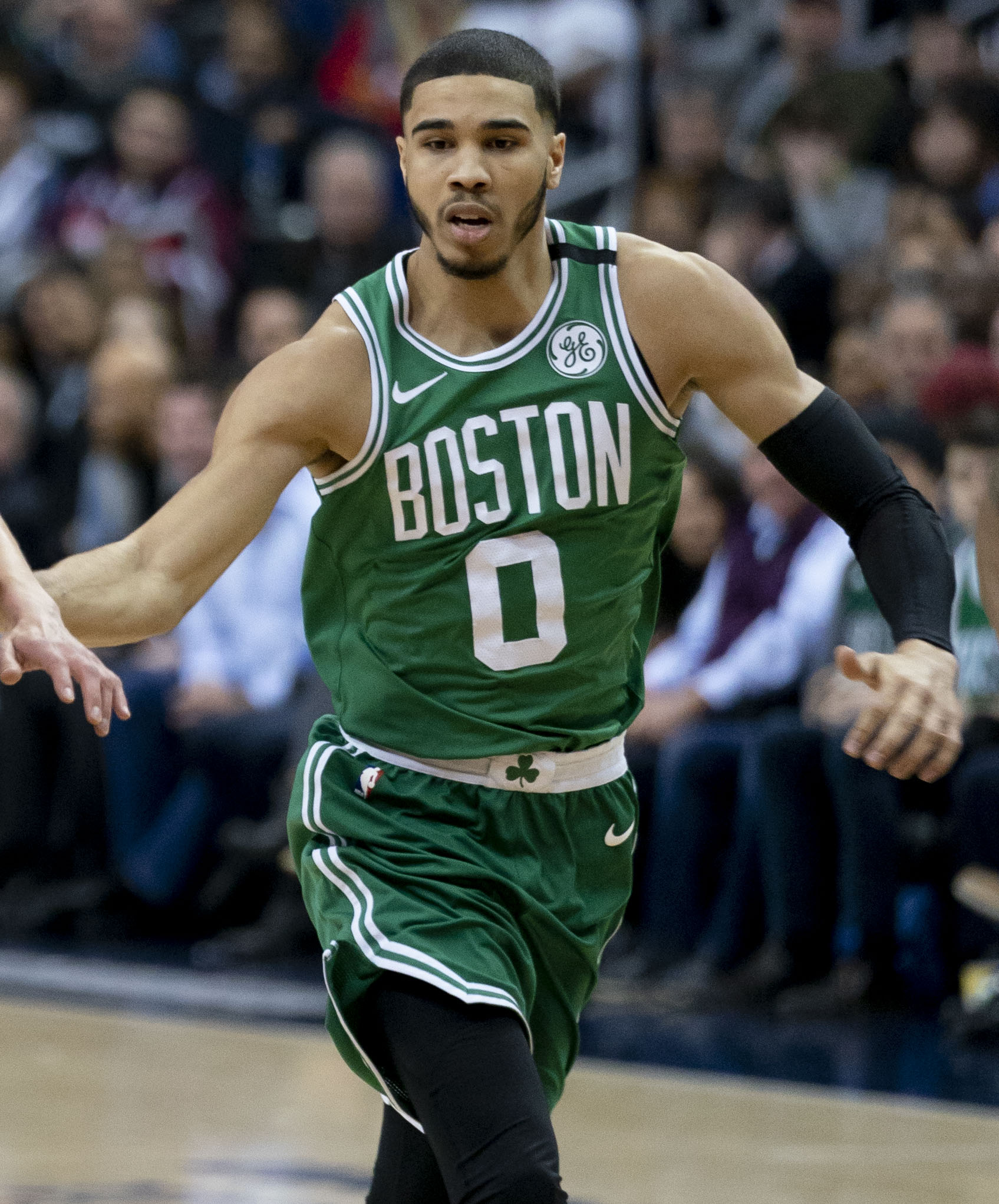 Celtics at Wizards 4/10/18